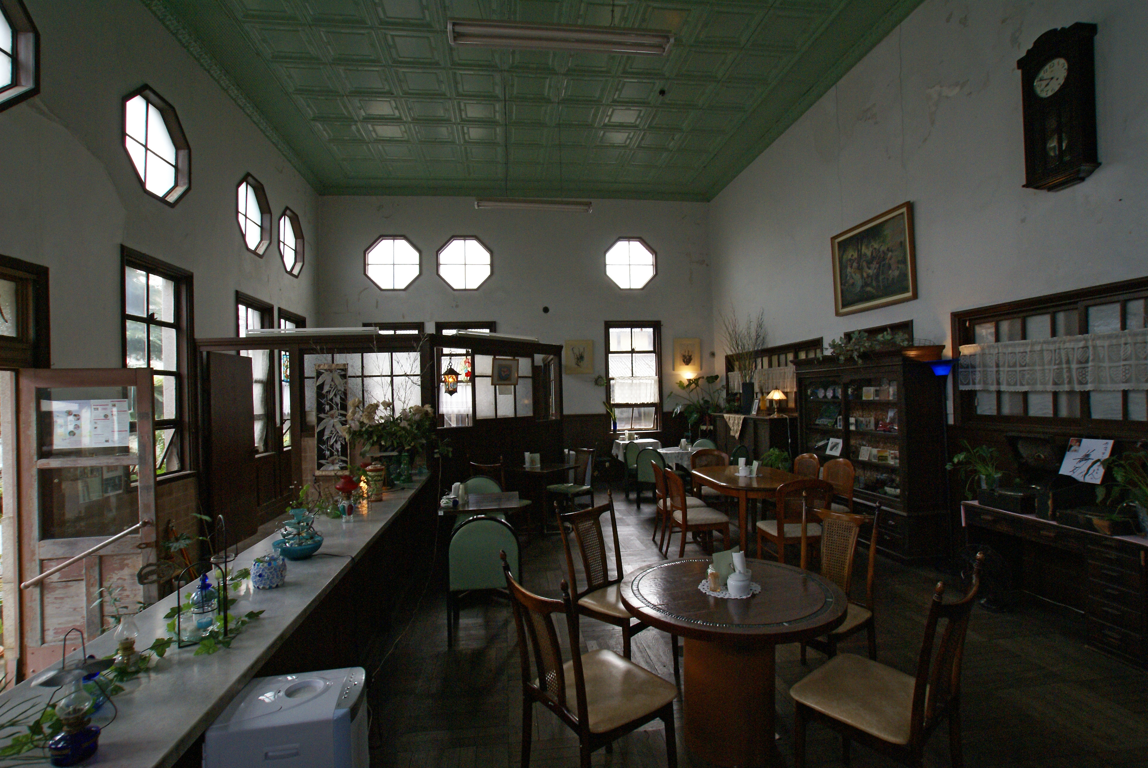 Old Hiketa Post Office in Hiketa, Higashikagawa, Kagawa prefecture, Japan